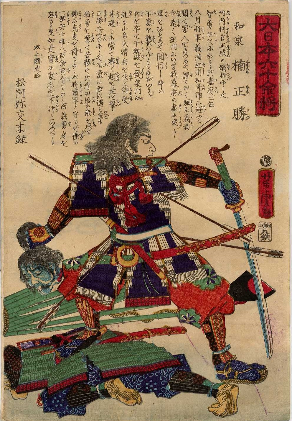 Izumi, Kusunoki Masakatsu, from the series Sixty-odd Famous Generals of Japan, woodblock print